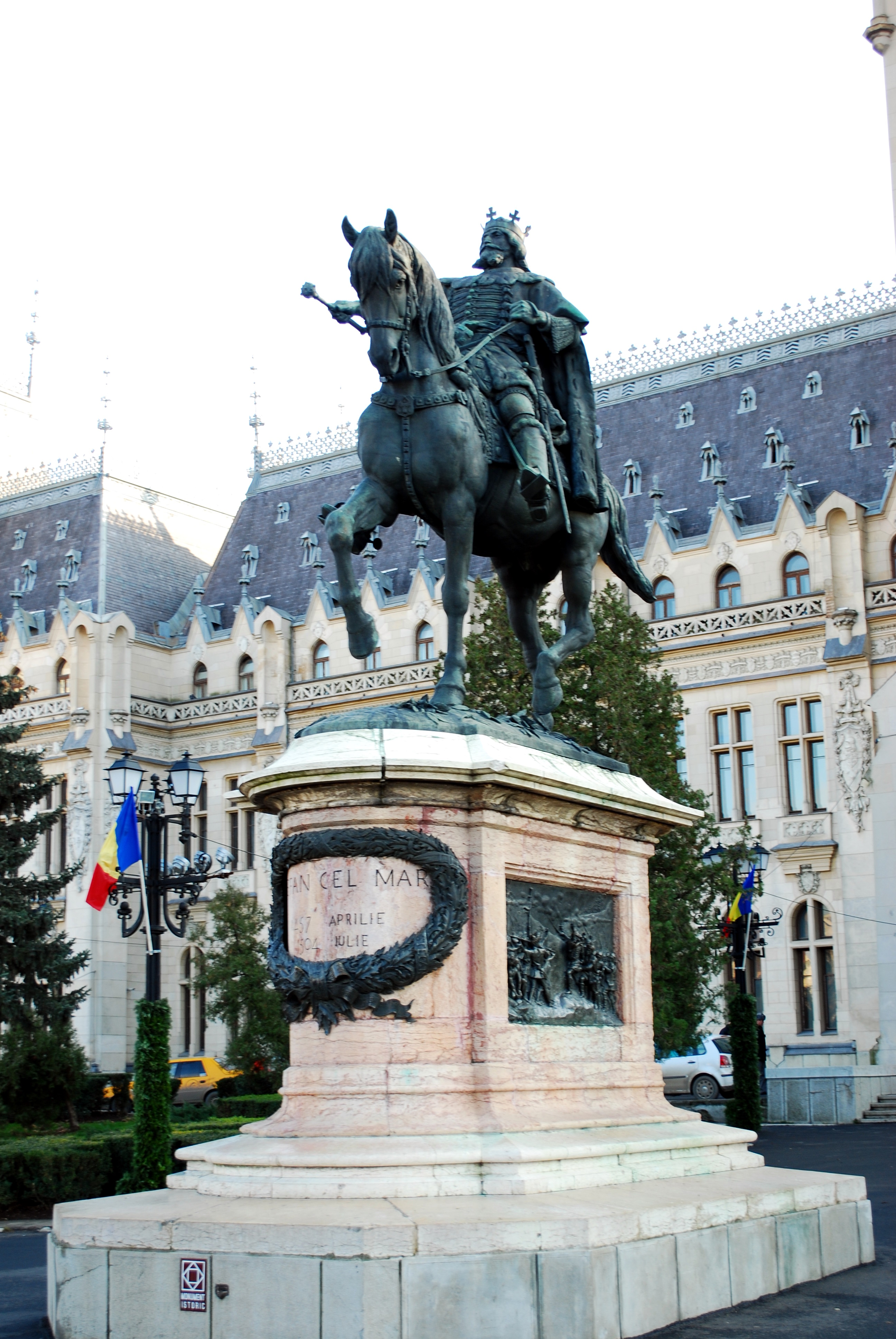 The statue of Stephen the Great in front of the Palace of Culture in Iaşi, Romania